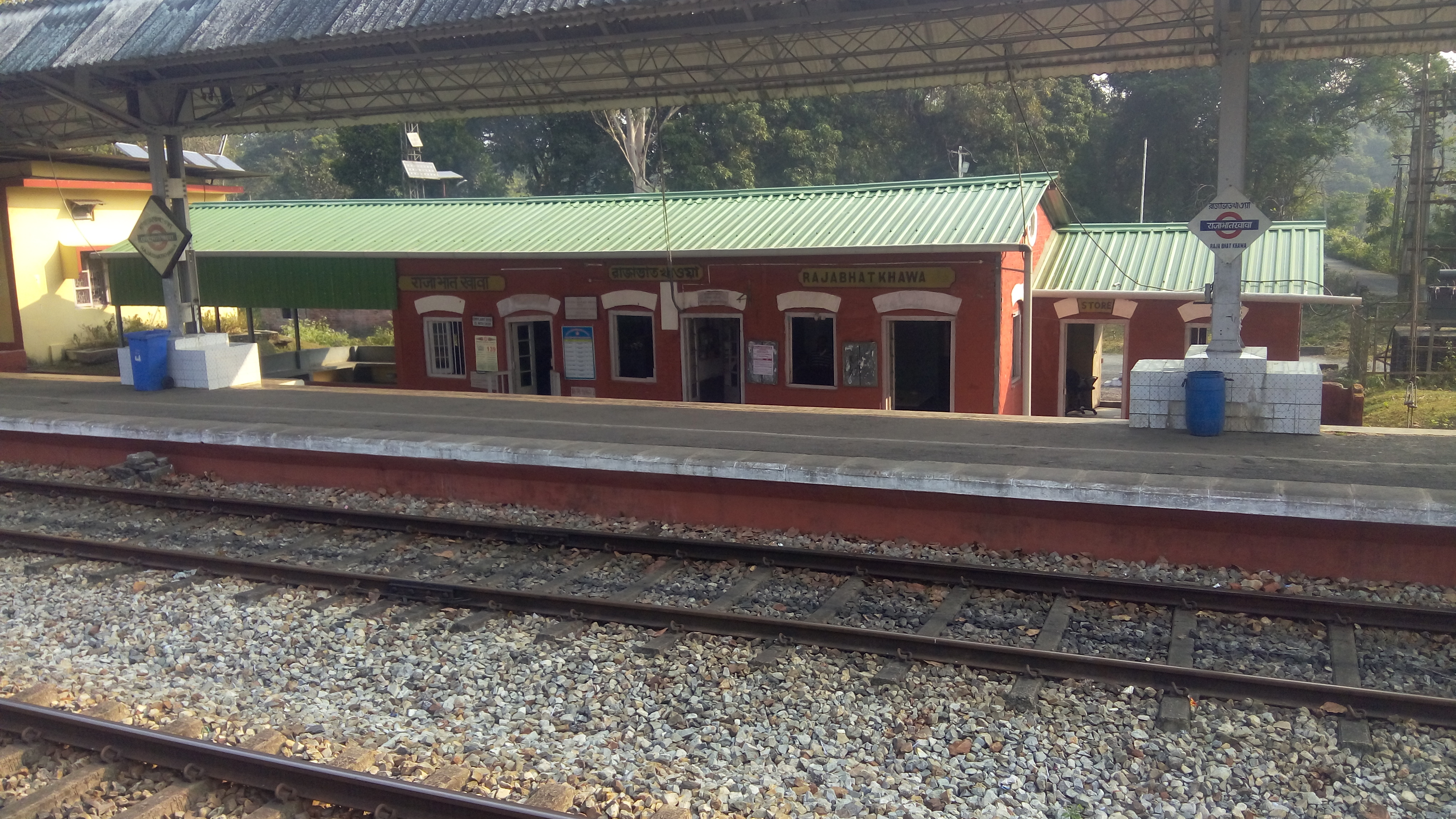 Rajabhatkhawa Railway Station in West Bengal from the train on the tracks.